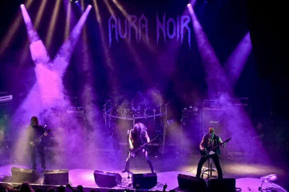 Aura Noir en concert à l'Inferno Festival à Oslo le 21 avril 2011